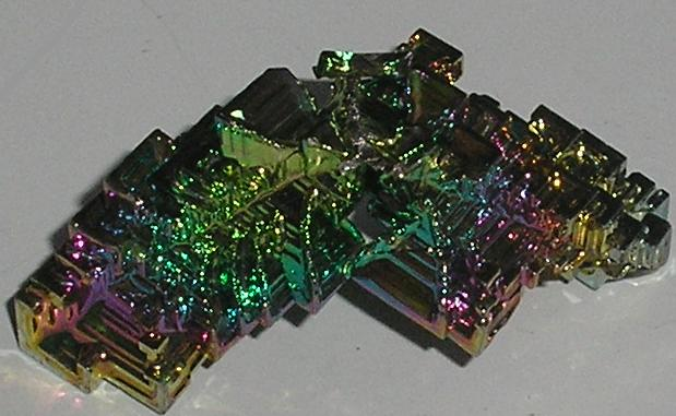 A nugget of crystaline bismuth